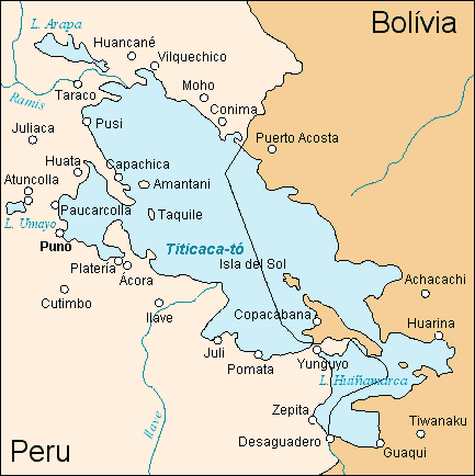 Map of Lake Titicaca in Hungarian